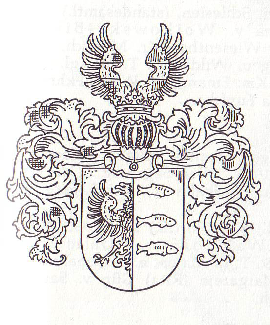 Coat of arms of the german family von Mitschke-Collande